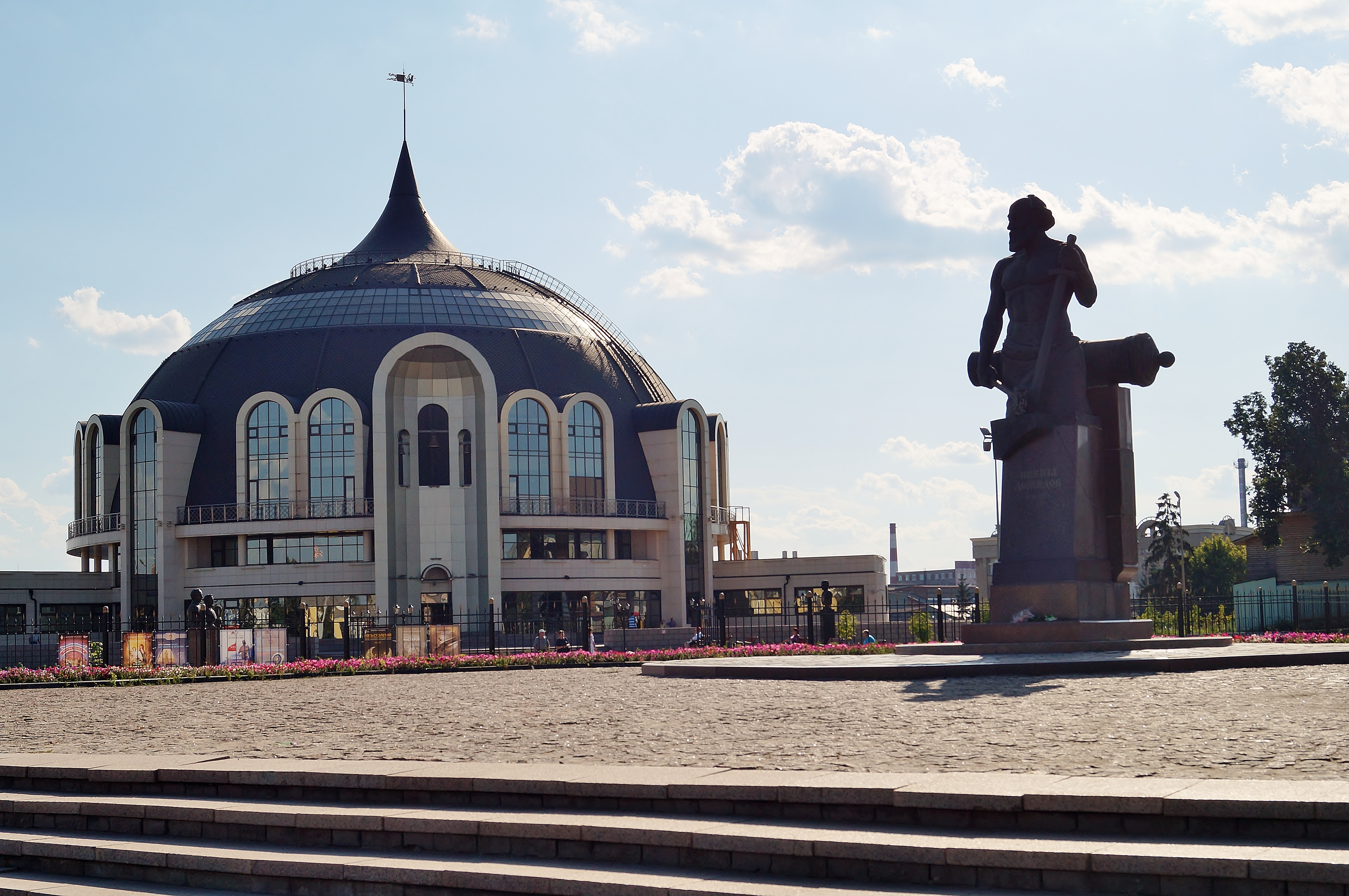 Tula State Museum of Weapons